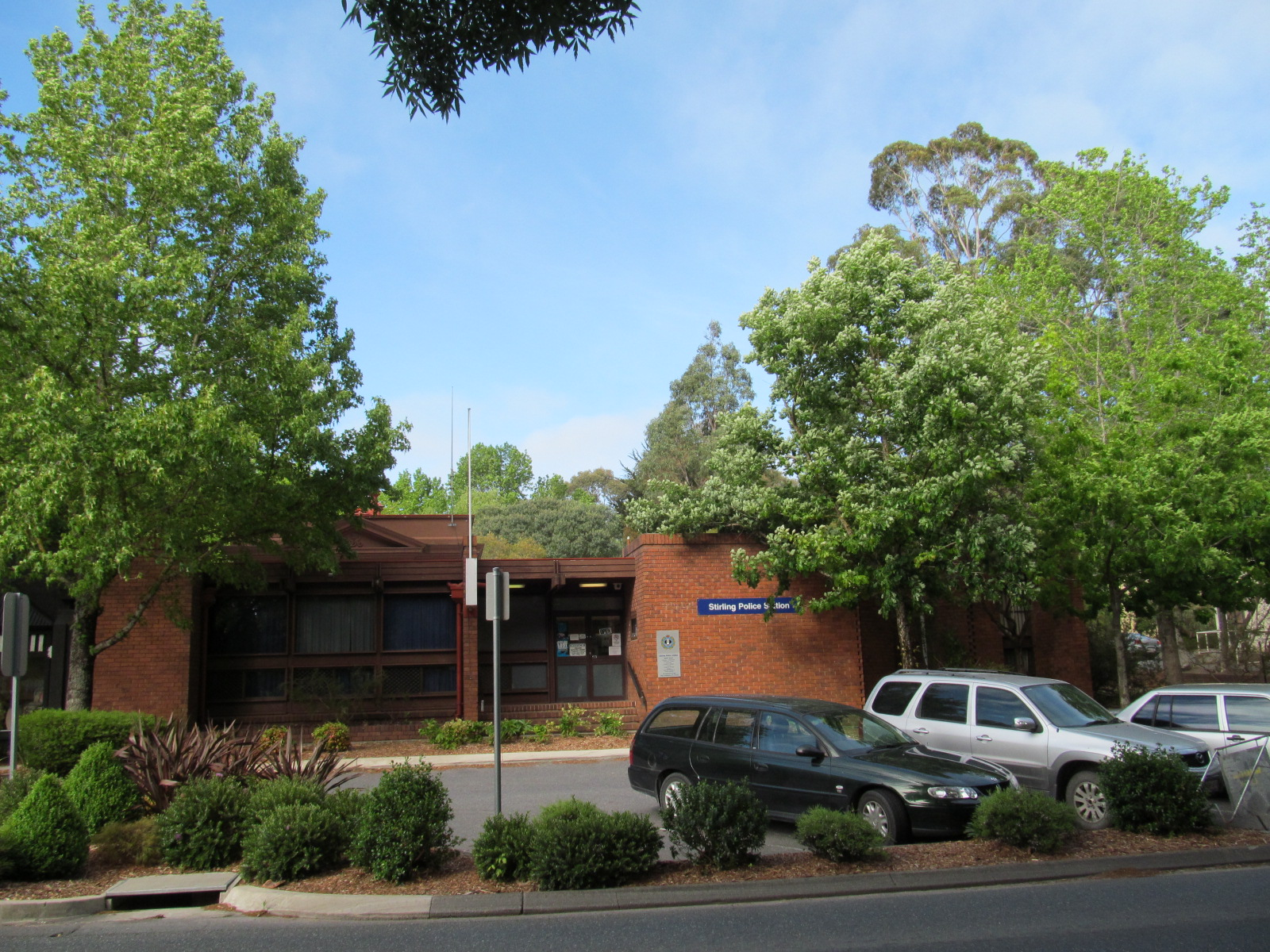 Police station in Stirling, South Australia